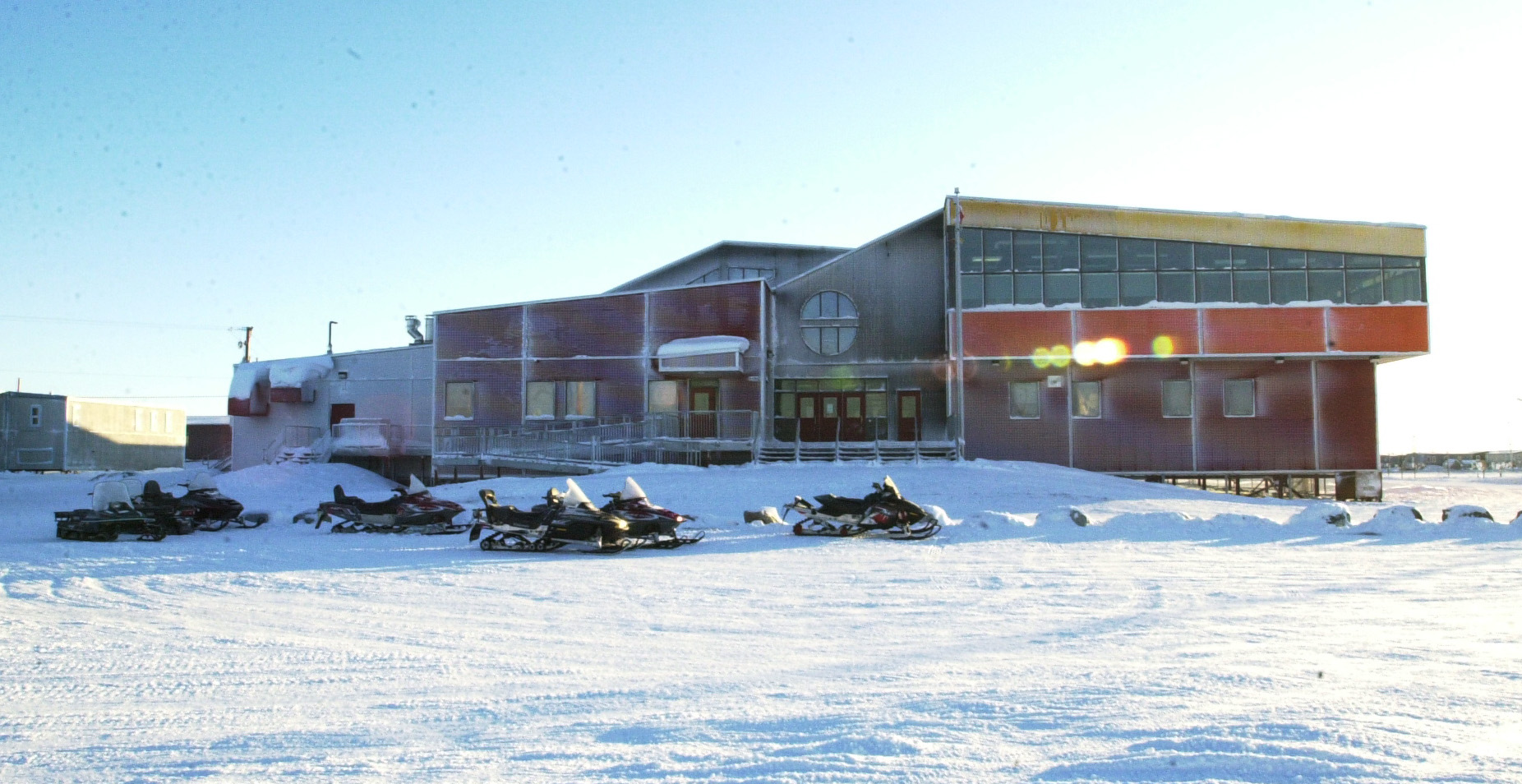 New School. The red section on the left side is the Media Centre of Education Nunavut. Arviat, Jan 2007.